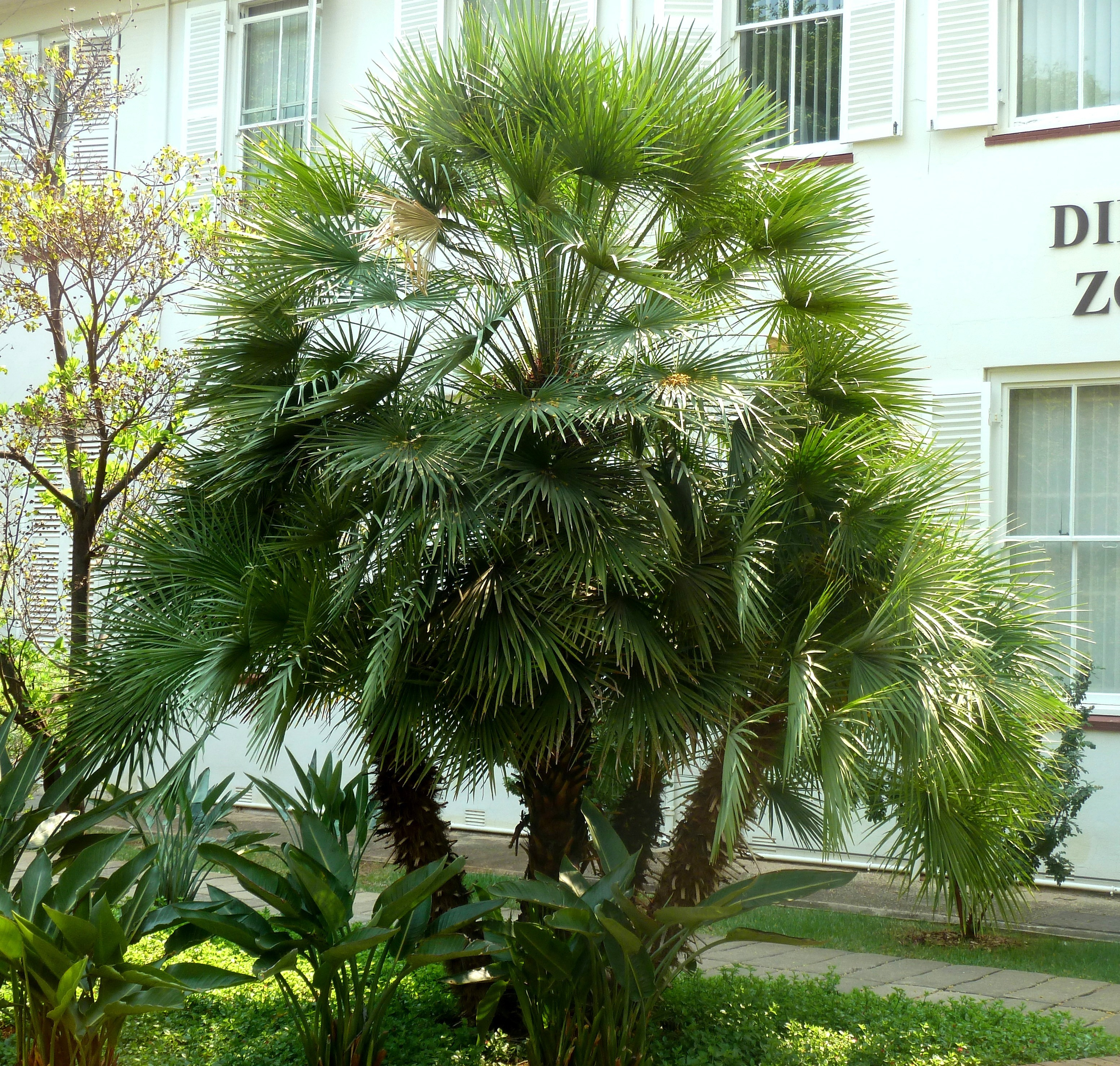 Habit of Mediterranean fan palm at the University of Pretoria